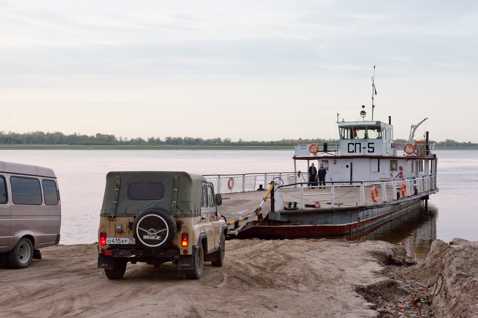 Ferry SP-5 in Kolpashevo, Russia.